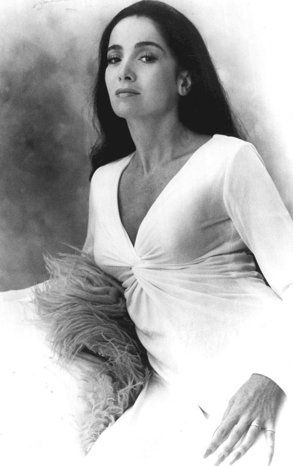 Photo of Linda Cristal from an appearance on the television series Police Story.